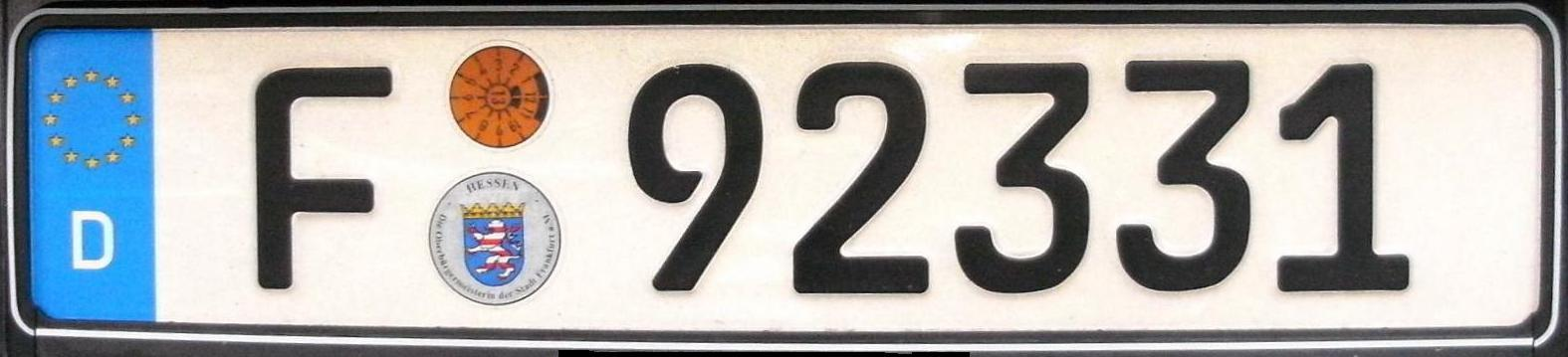 License plate of a car of a consulate employee at Frankfurt/Main, Germany